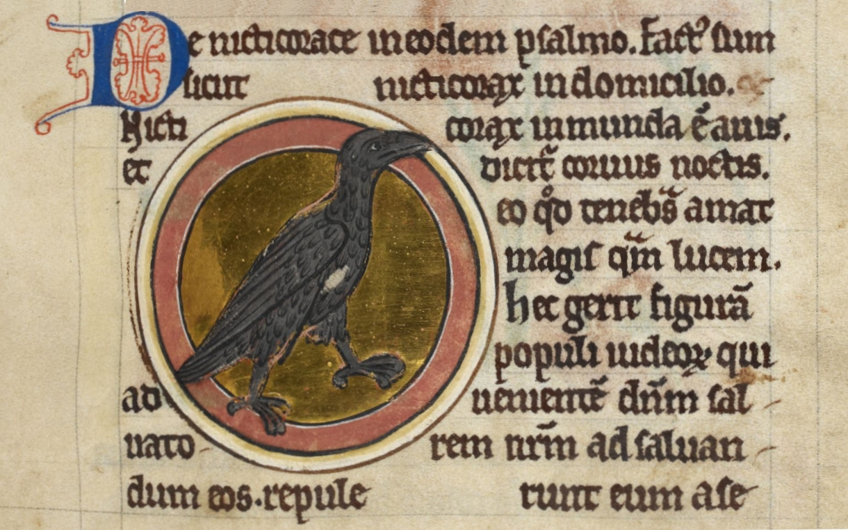 Nycticorax, legendary bird of a XIII th c. Bestiary